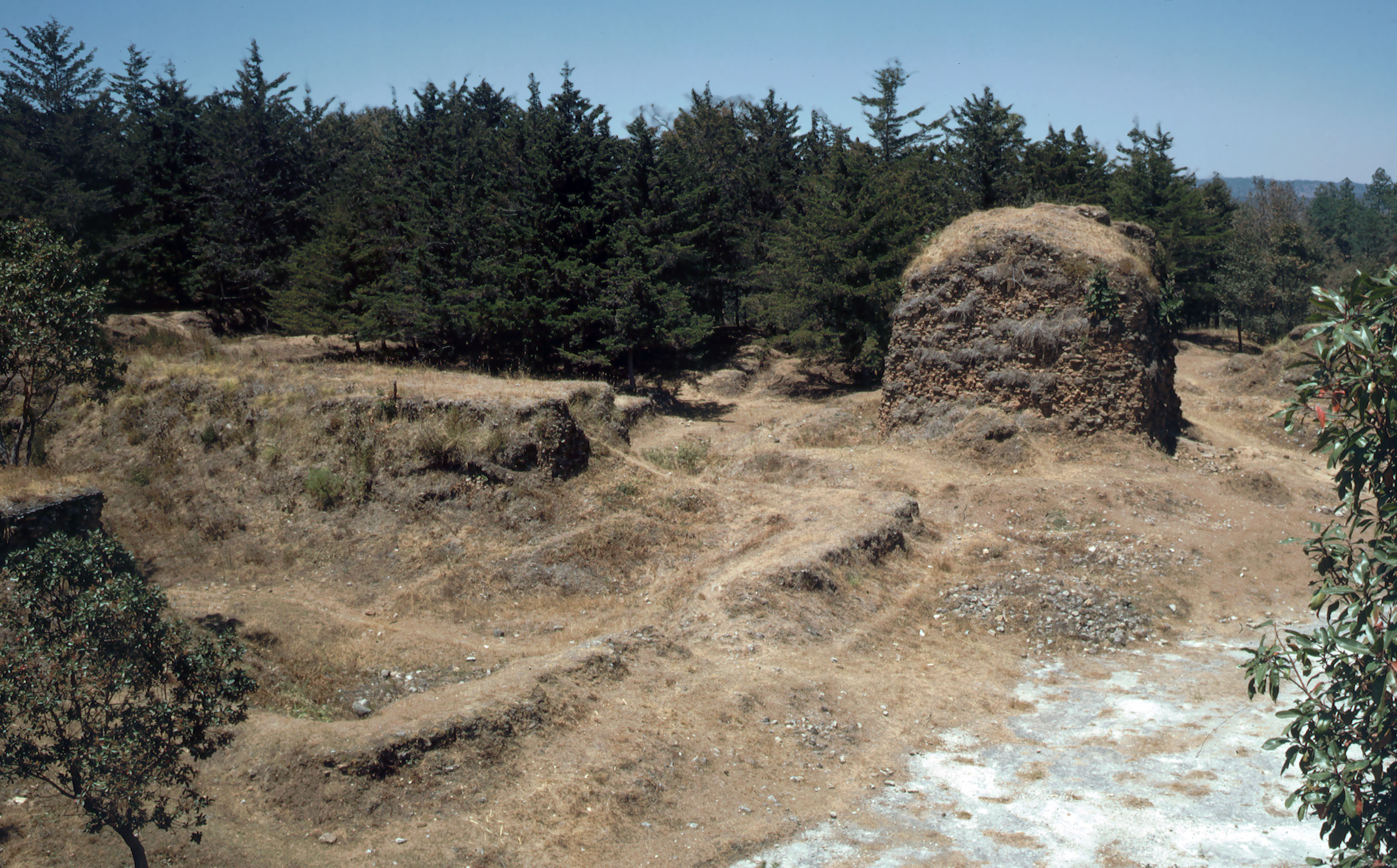 Utatlan, Quiché, Guatemala.